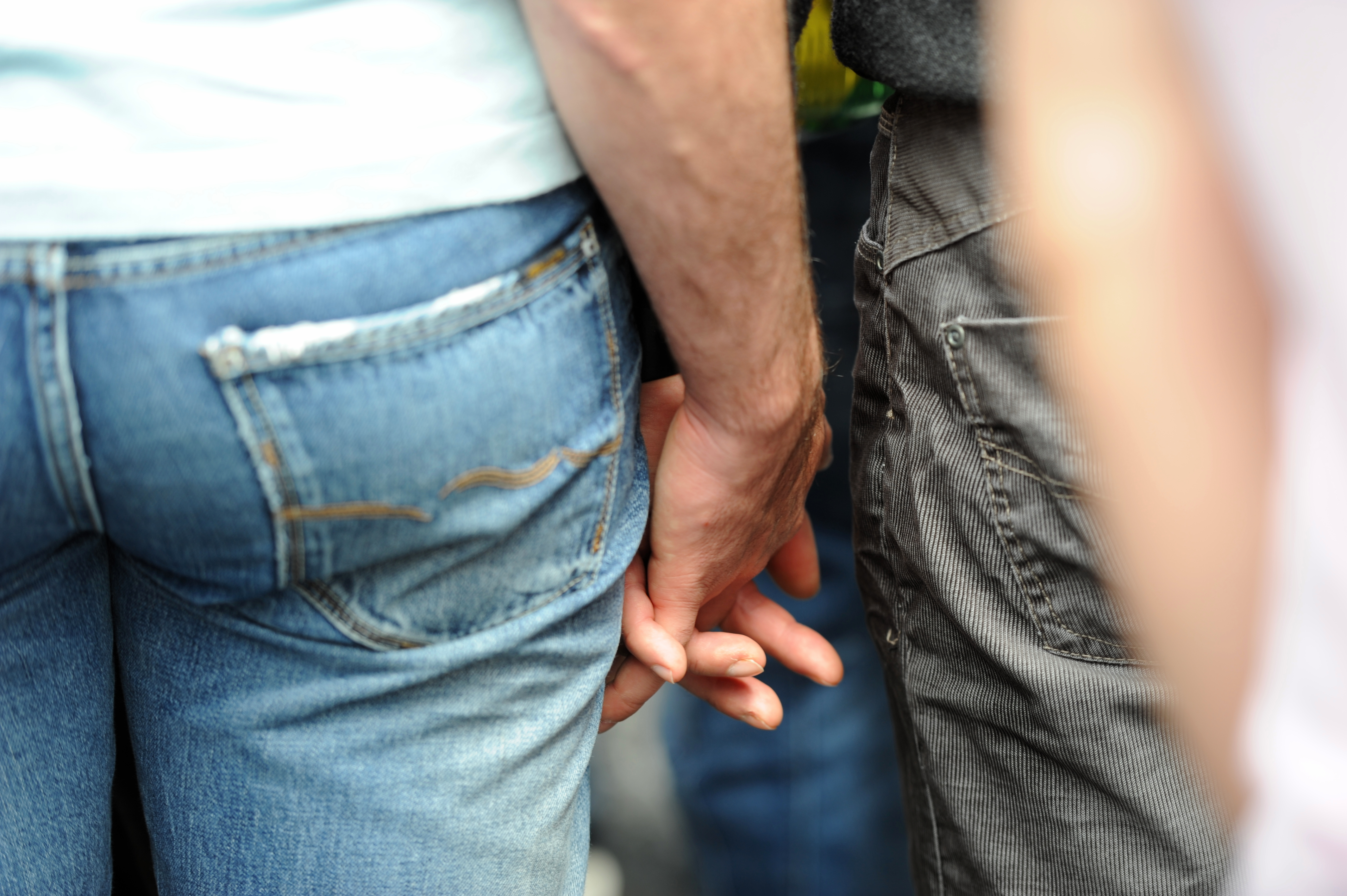 Toulouse Gay Pride 2011 in Toulouse, France, on June 18th, 2011.